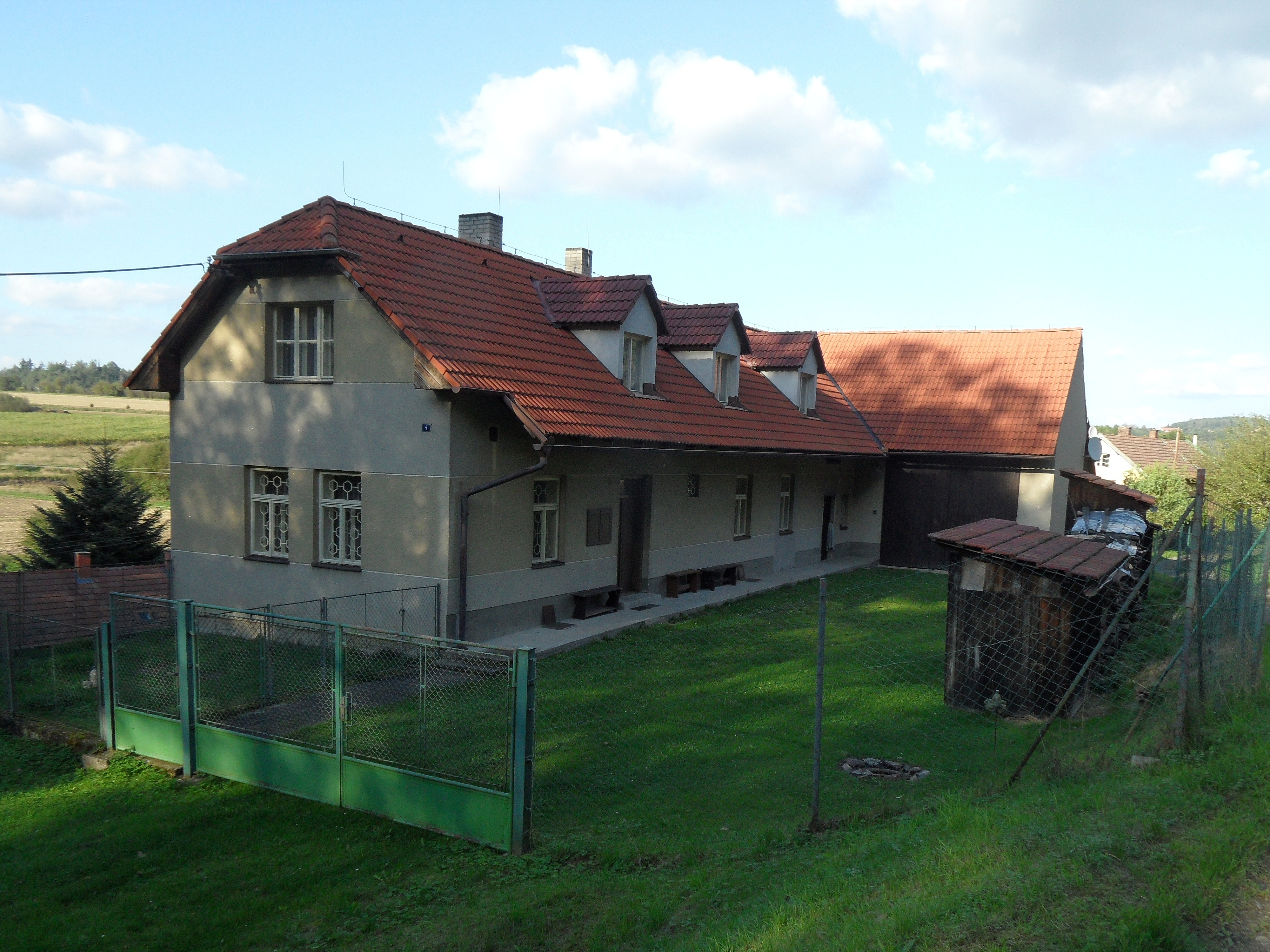 Domahoř A. Large House, Kutná Hora District, the Czech Republic.